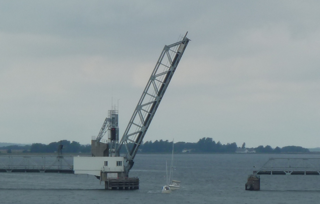 The Limfjord Railway Bridge open for passing ships.